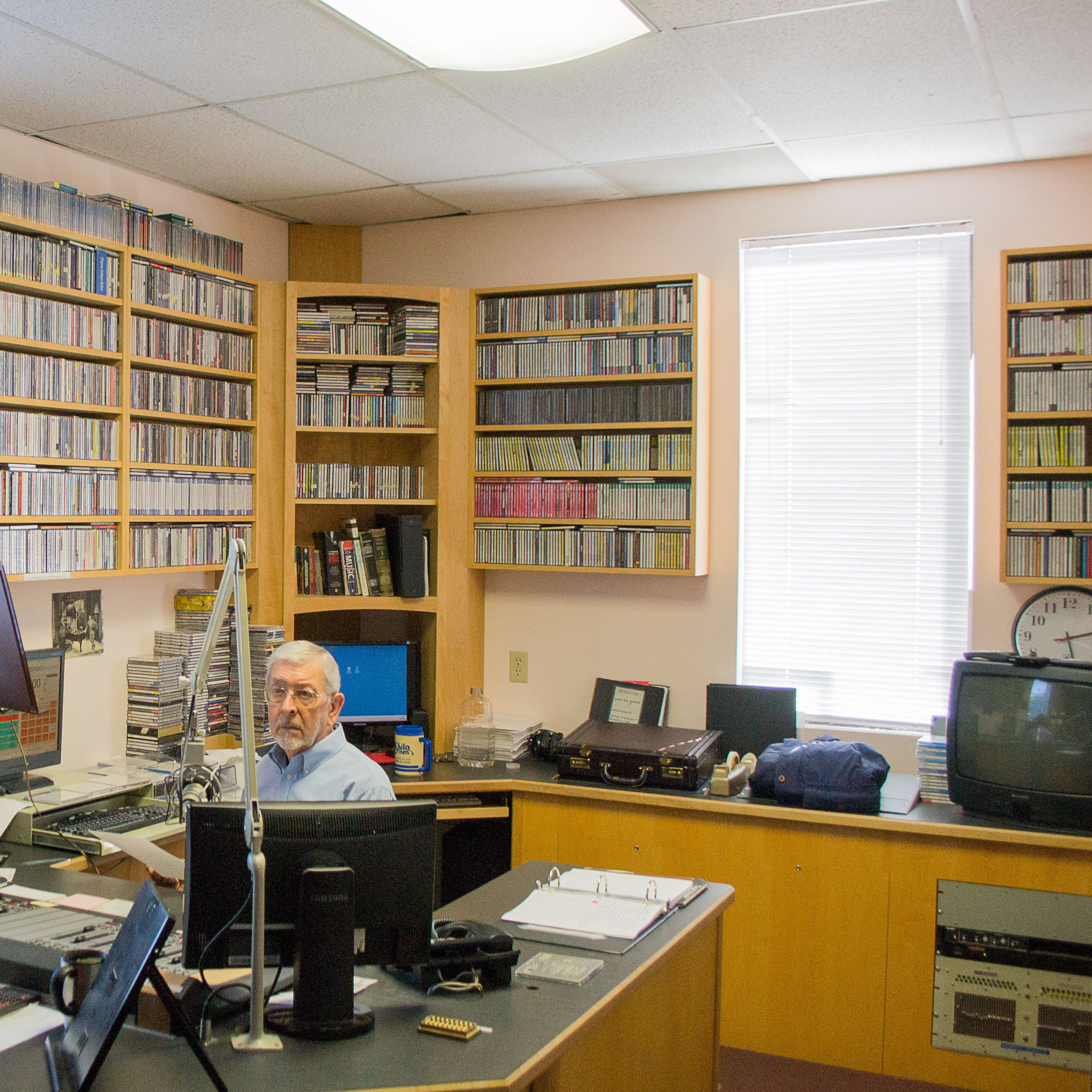 A view of the KWAX studio